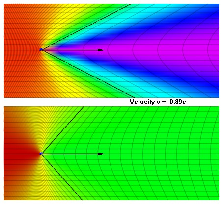 Demonstration of Aberration of light and Relativistic Doppler effect. Relativistic Doppler effect in comparison with non-relativistic effect. Animation⇒ How this image was created